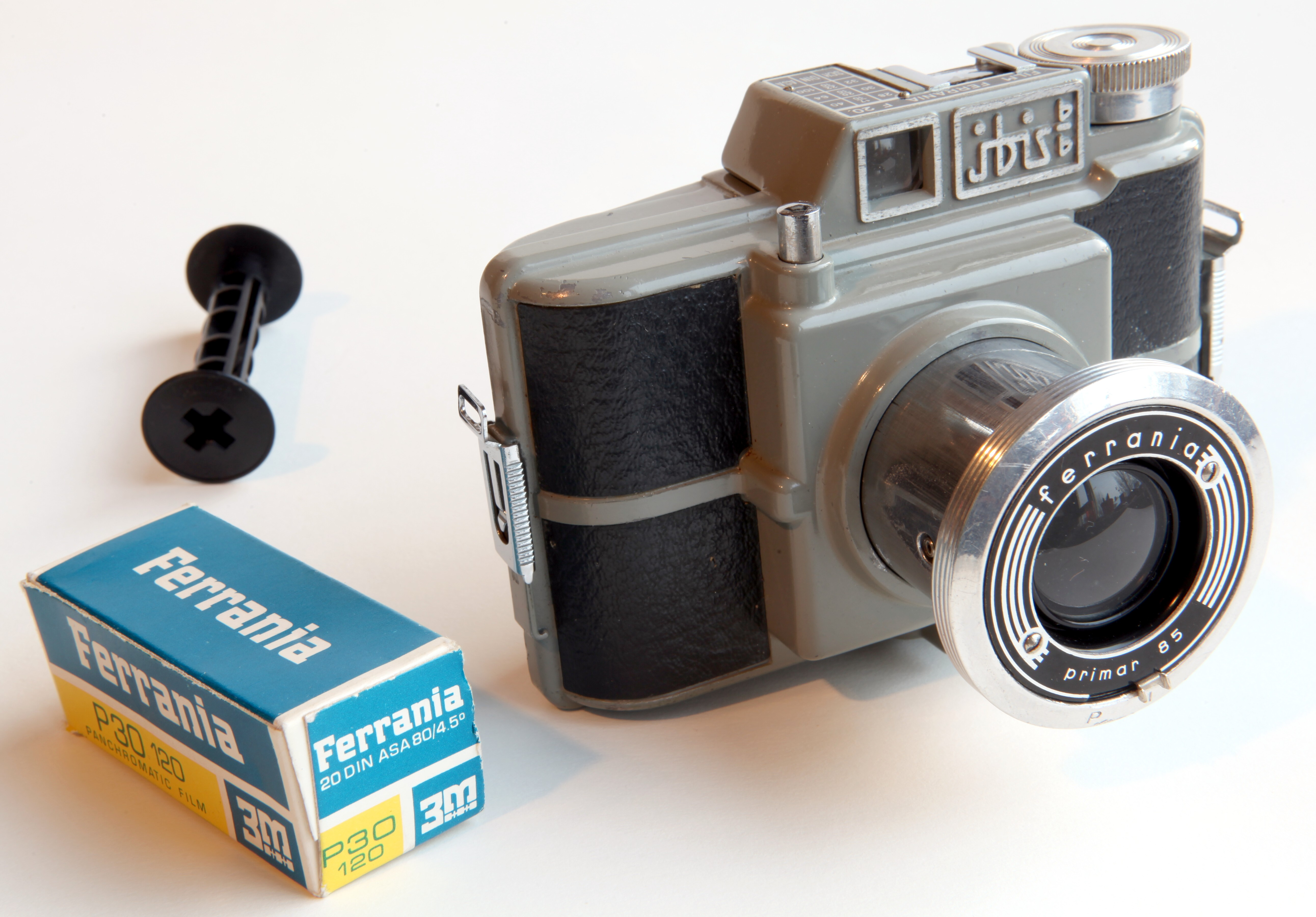 Ferrania Ibis 66 and Ferrania 3M P 30 120 film